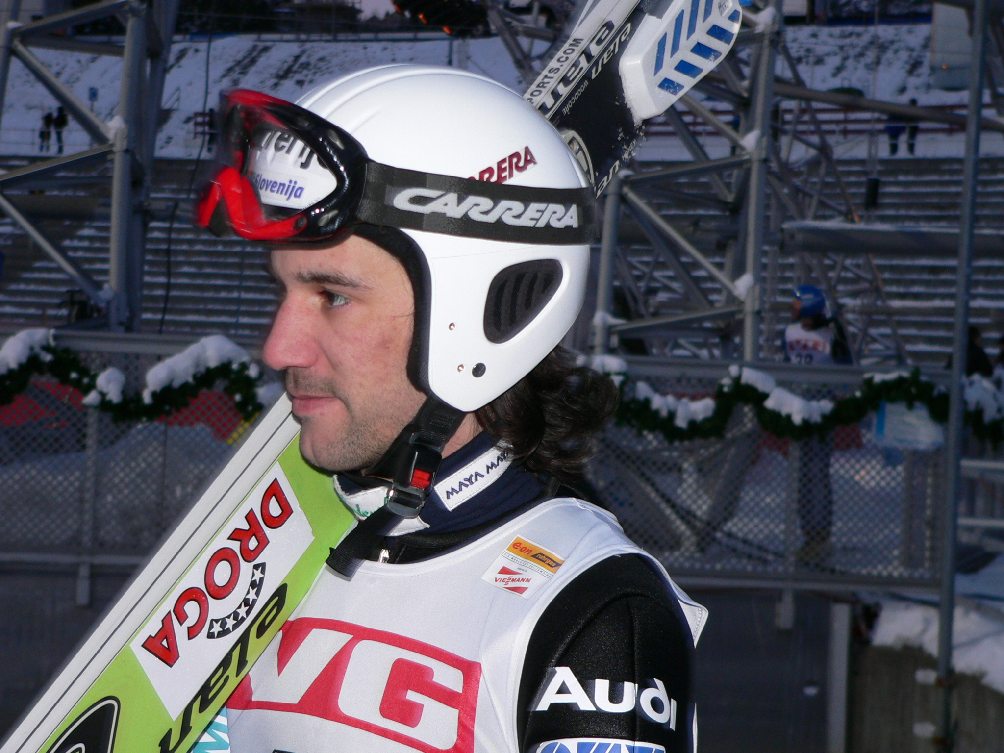 Primož Peterka at the WC event in Holmenkollen in 2005.